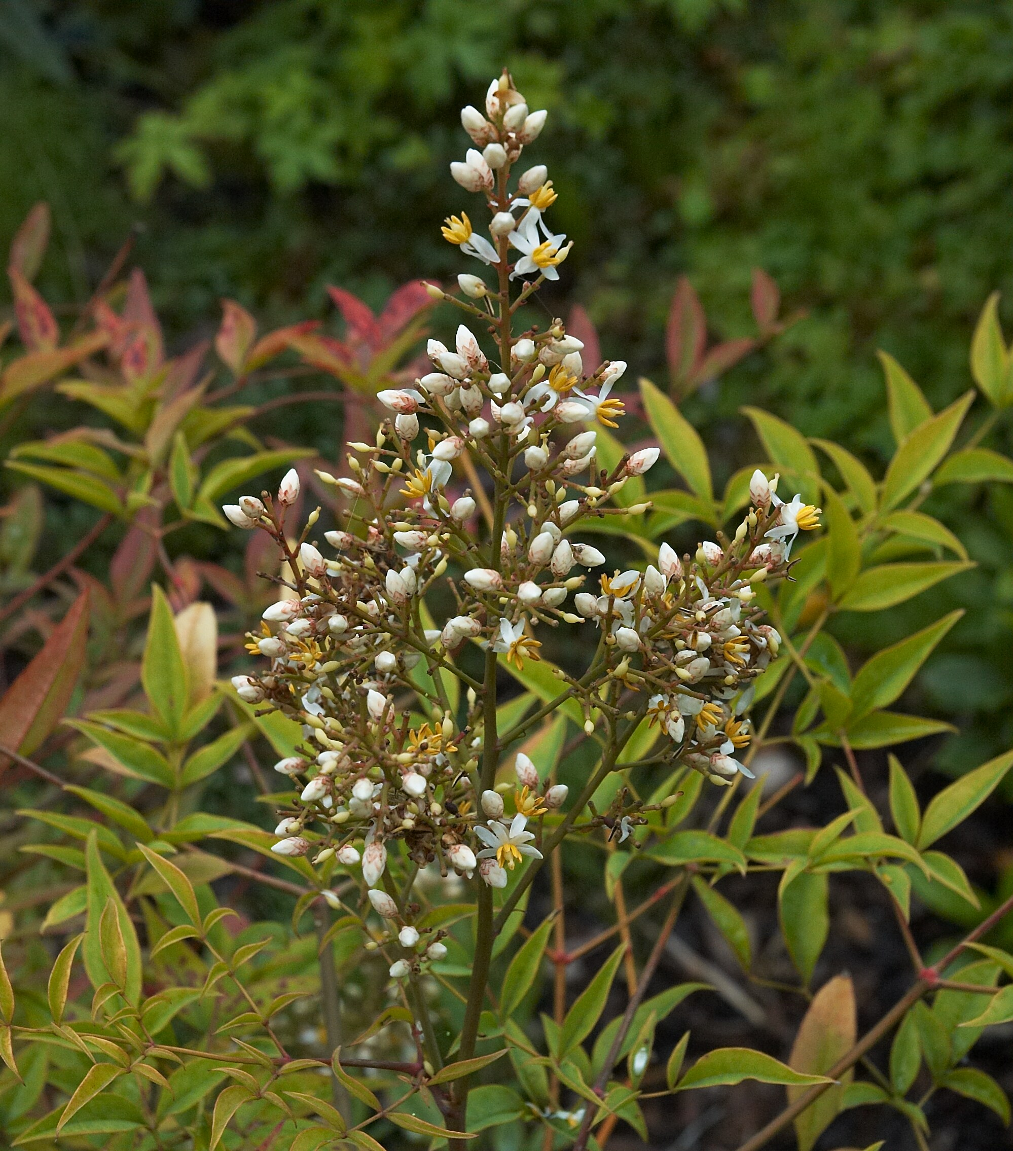 Heavenly bamboo or Sacred bamboo